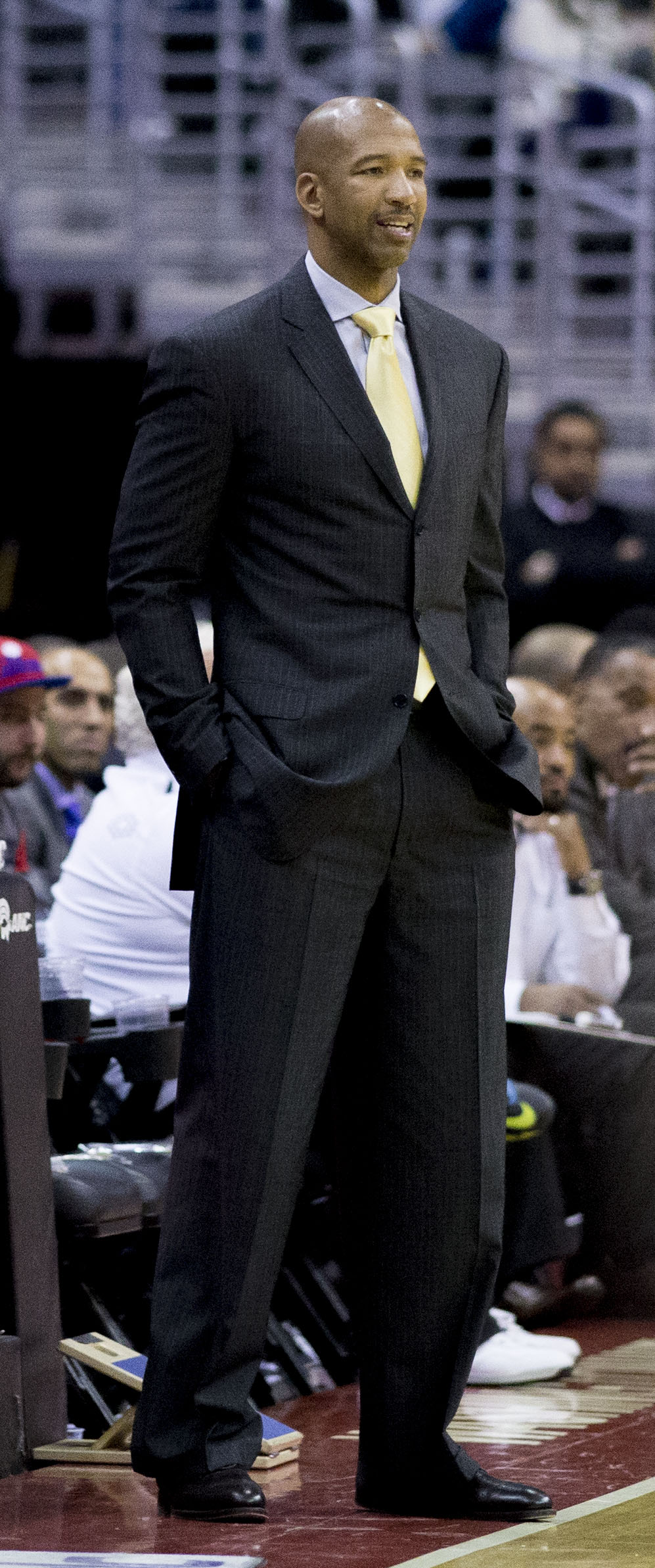 Pelicans at Wizards 2/22/14